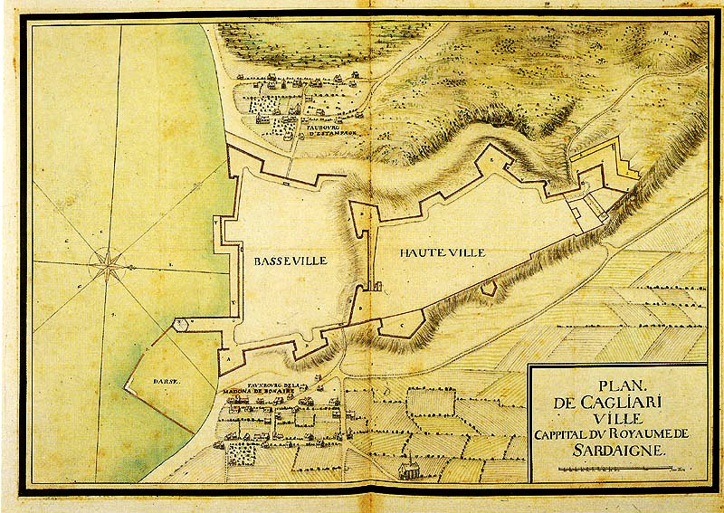 French ancient map of the circuit wall of the Acropolis, the city high, and the lower city, the Marina.